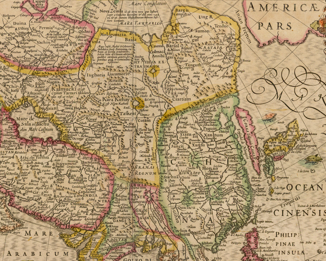 "A new description of Asia". Note the presence of two Khanbaliqs (Combalich in the land of "Kitaisk" on the Ob River, and Cambalu, in "Cataia") and one Beijing (Paquin, in Xuntien (Shuntian))